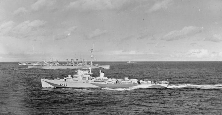 Operations in northern waters. In the foreground is HMS BICKERTON, with HMS KENT and HMS TRUMPETER. Photograph taken shortly before HMS BICKERTON was torpedoed.